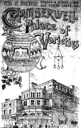 Camberwell Palace of Varietes Music Hall promotional poster